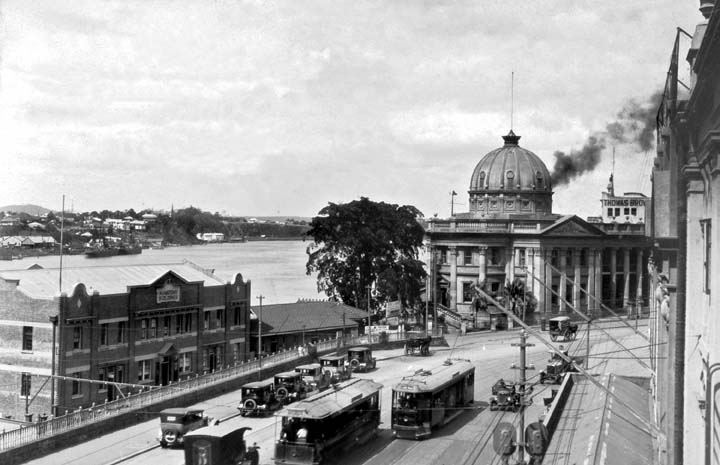 Customs House, Queen Street and Petrie Bight, Brisbane. (Brisbane CBD; Brisbane central business district)